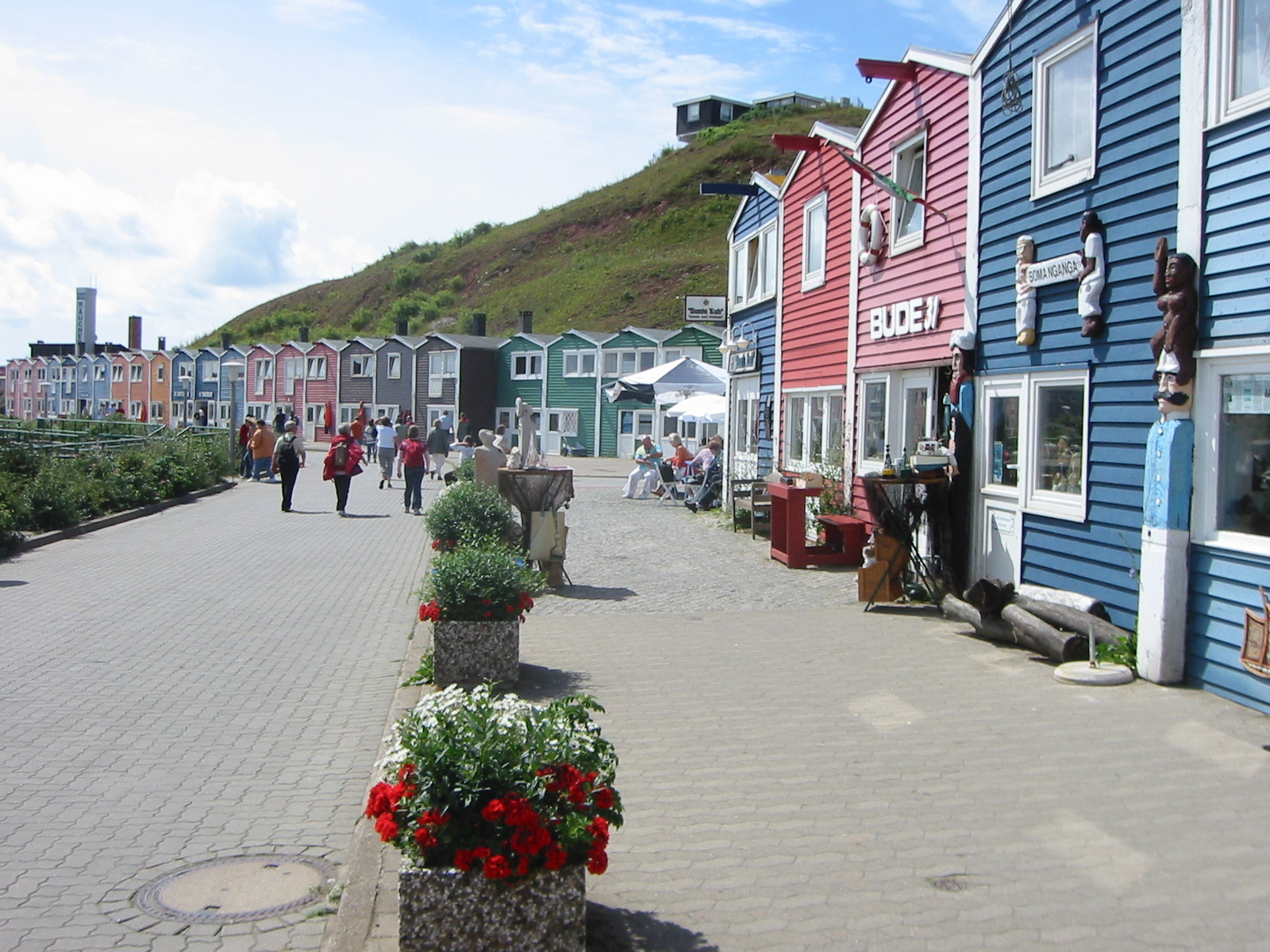 lobster shanties, Heligoland